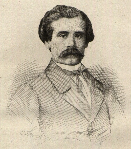 José Maria Latino Coelho (1825-1891).